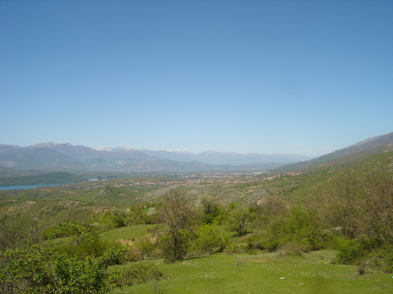 View of the Župa region, Macedonia